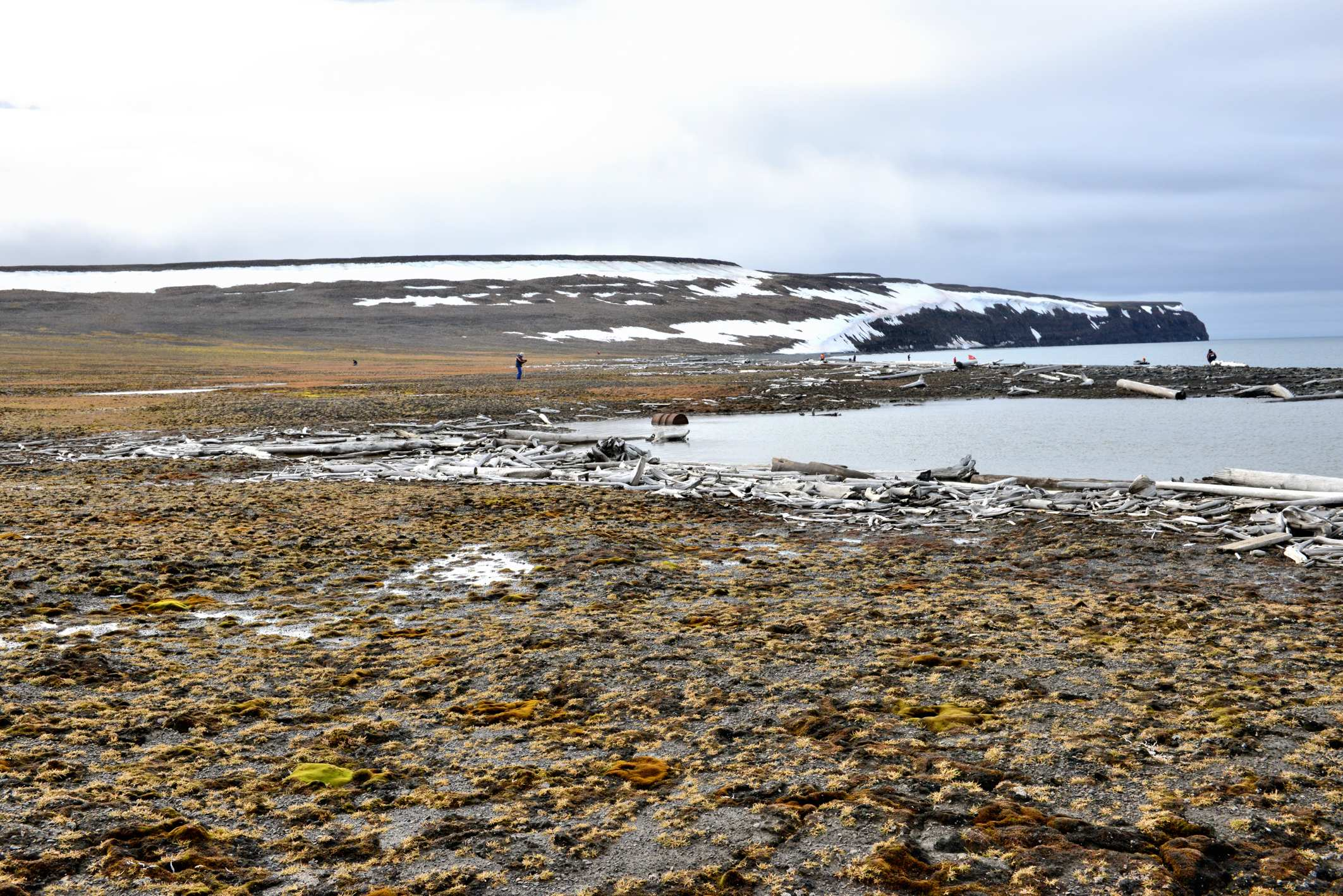 Bennett Island, north coast (De Long Islands - New Siberian Islands, Russia; 76°44‘30‘‘N, 149°21‘19‘‘E); tundra landscape